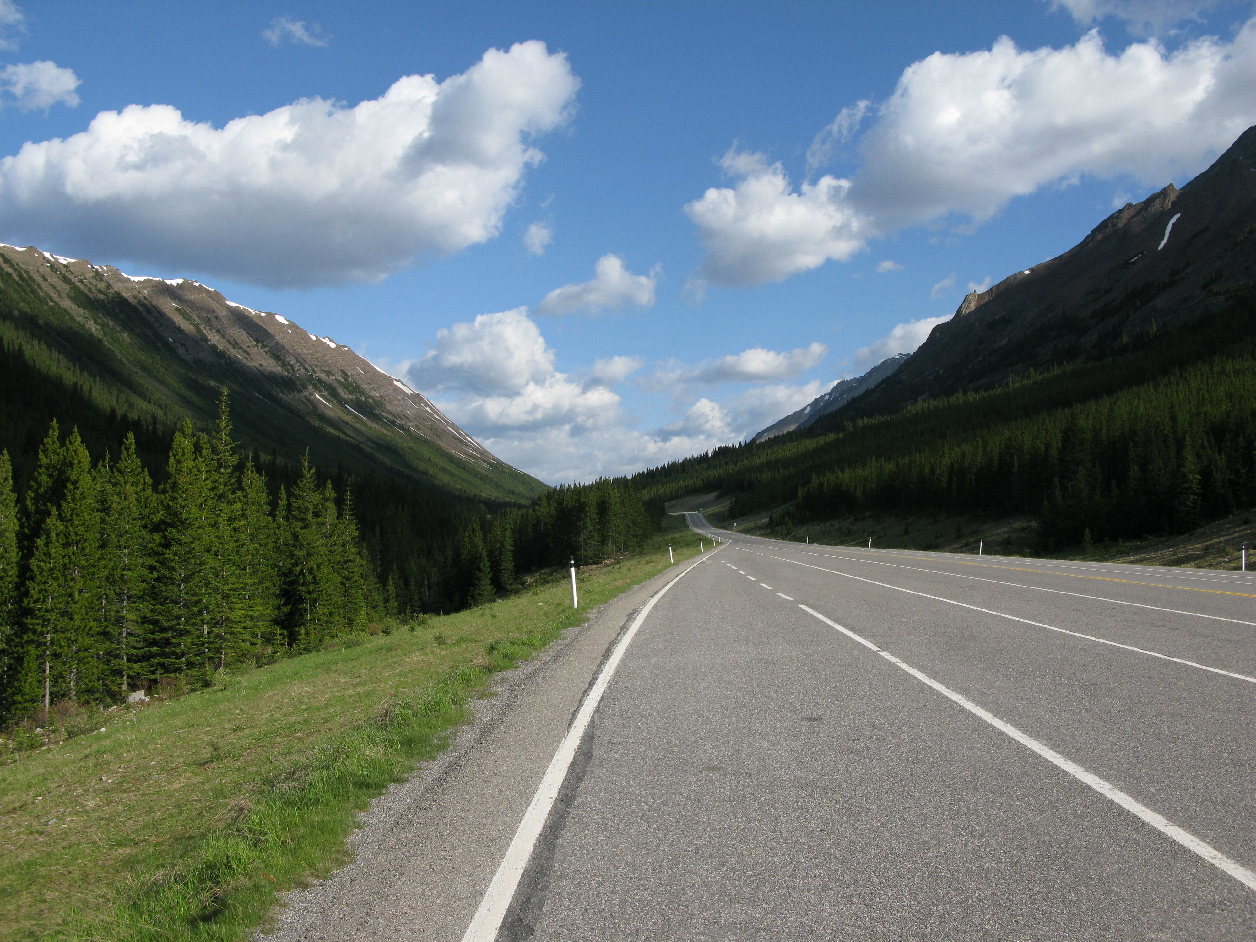 Highwood Pass from Alberta Highway 40